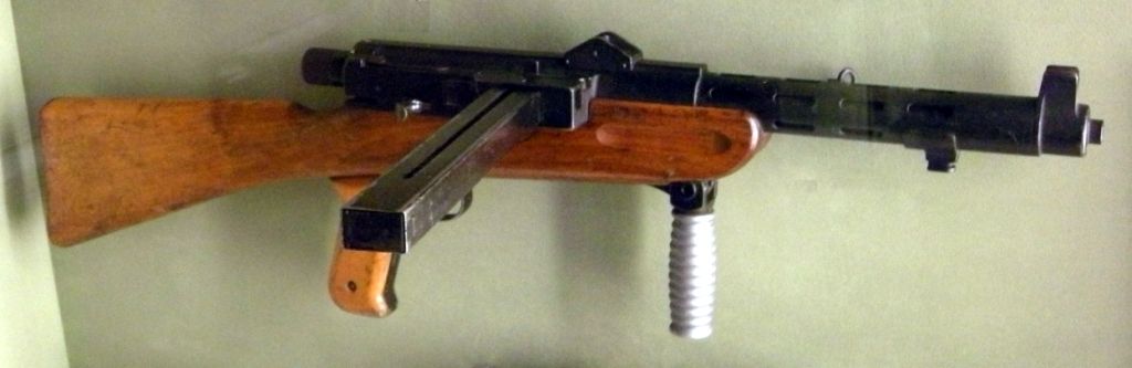 Lmg-Pistole 41 44